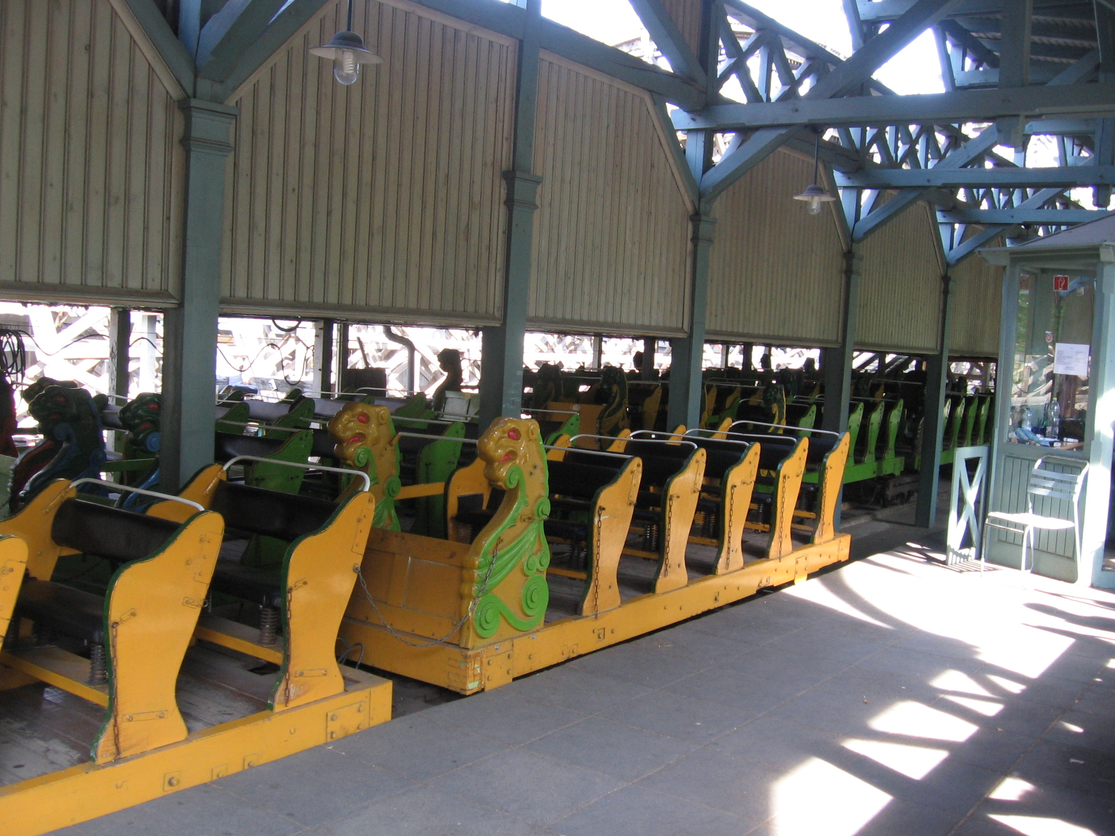 Wooden roller coaster in Budapest